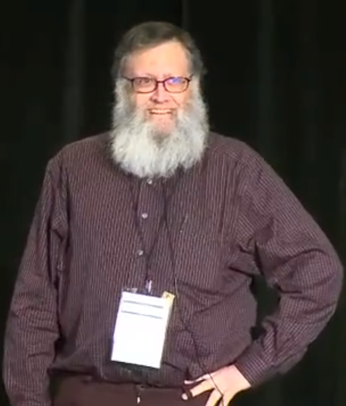 American computer scientist David Notkin delivering flash talk for the National Center for Women & Information Technology (NCWIT).